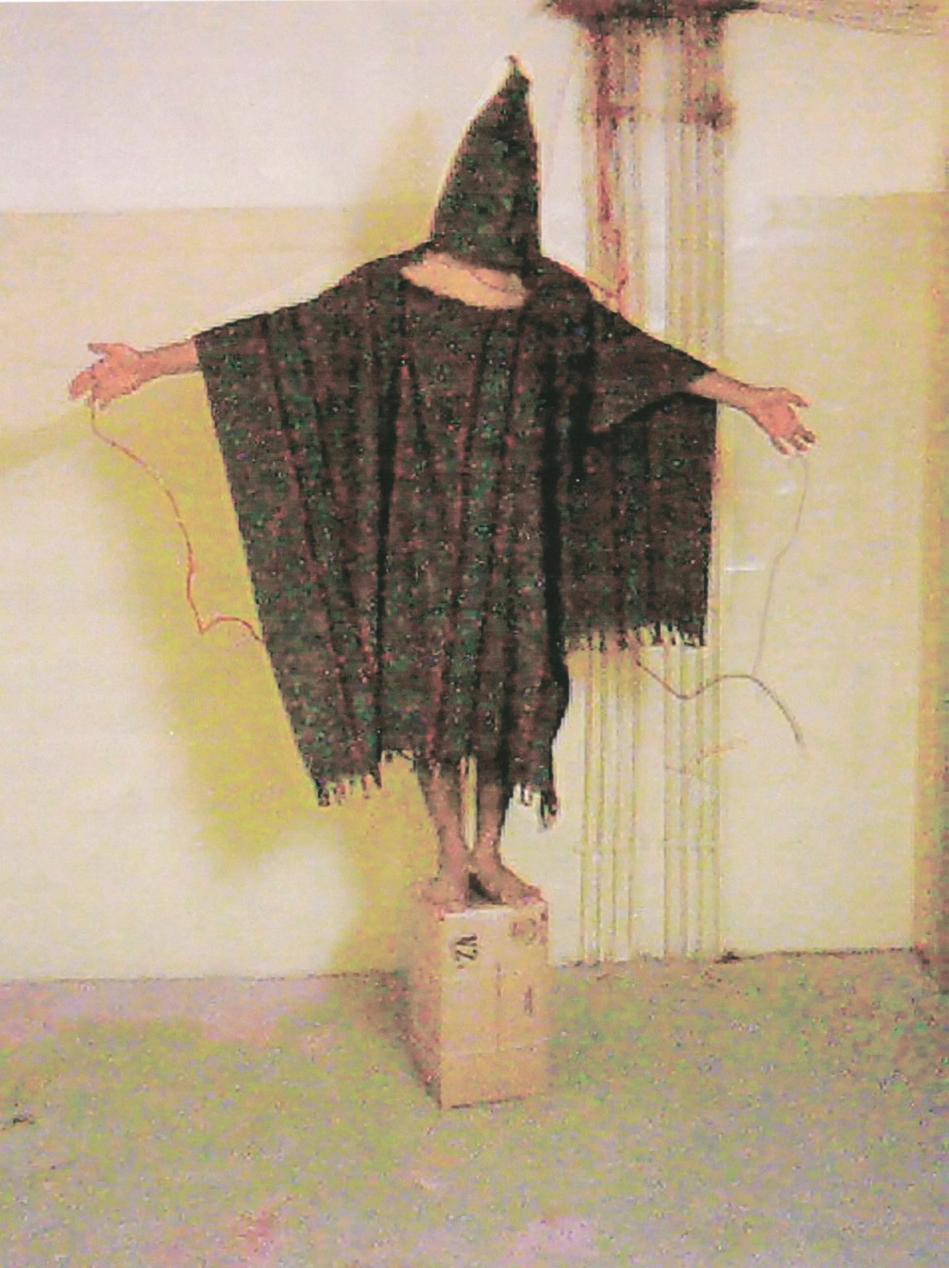 11:01 p.m., Nov. 4, 2003. Detainee with bag over head, standing on box with wires attached. All caption information is taken directly from CID materials. U.S. Army / Criminal Investigation Command (CID). Seized by the U.S. Government. Note: The Hooded Man. This is one of Staff Sgt. Ivan Frederick’s photographs of the prisoner nicnamed Gilligan and later correctly identified as Abdou Hussain Saad Faleh standing on the box with wires attached to his left and right hand. In another photo, which was taken approximately three minutes after the iconic picture with a different camera, Frederick is standing to the right of Abdou Hussain Saad Faleh.